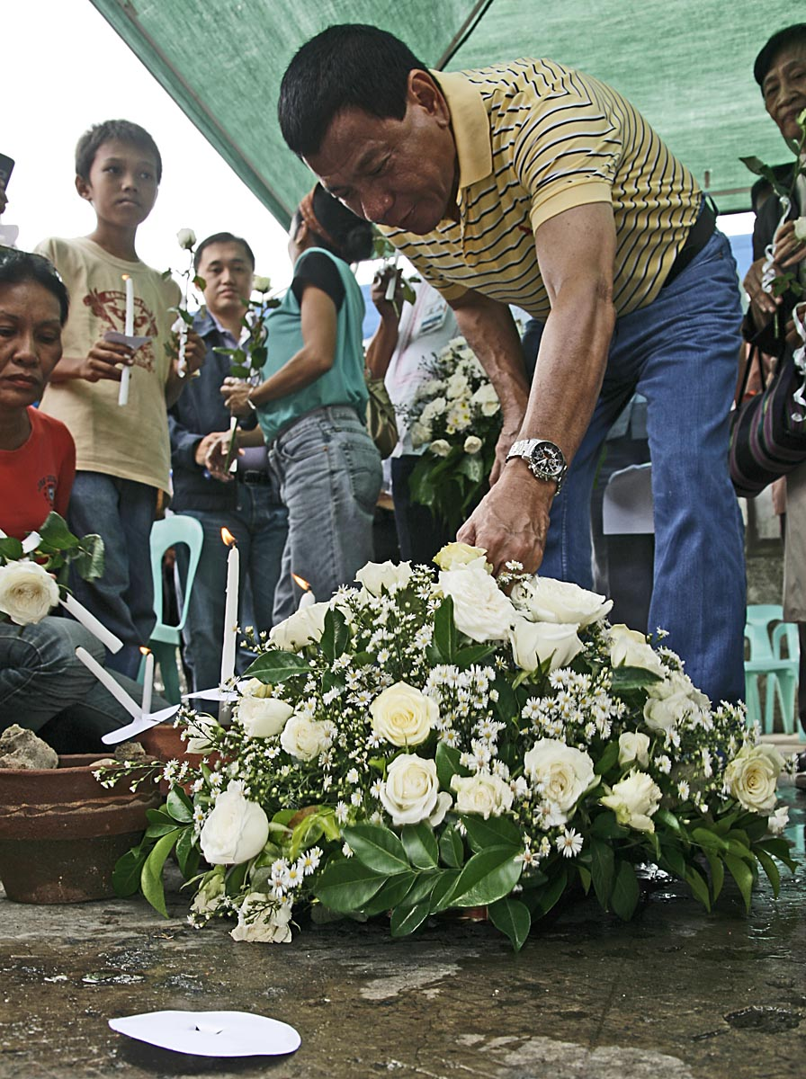 Davao City Mayor Rodrigo Duterte place flowers at the blast site in front old Davao International Airport terminal on Wednesday, March 04, 2009, to commemorate the 6th anniversary of the bombing incident that killed 22 persons and injured 135 others. The bombing incident, which was claimed by the Abu Sayyaf Group as their handiwork, remains unsolved.